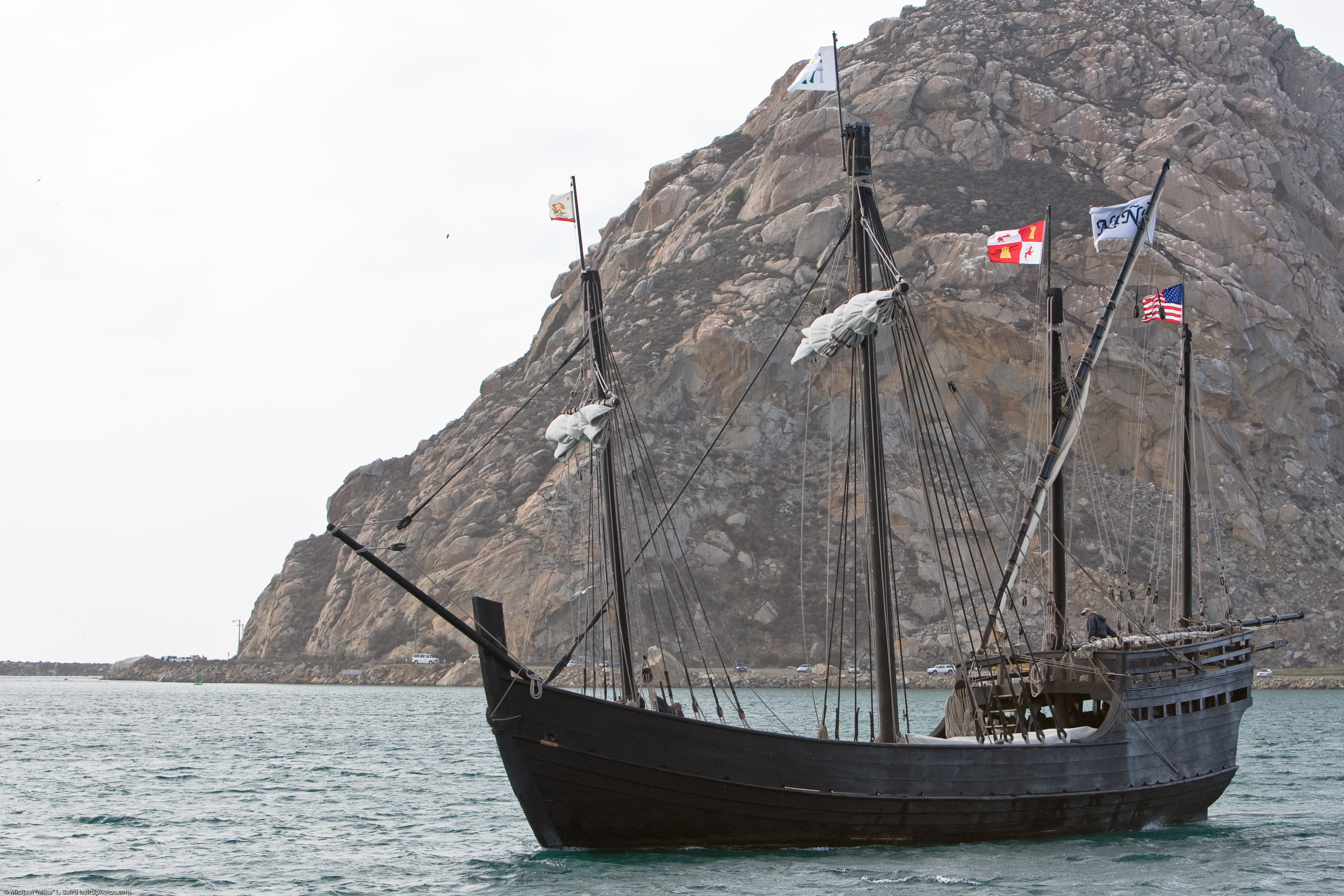 Niña in Morro Bay, California. The sailing ship built in 1991 is a replica of Columbus' Niña.